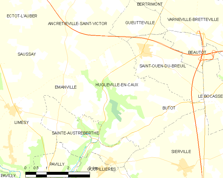 Map of French municipality Hugleville-en-Caux